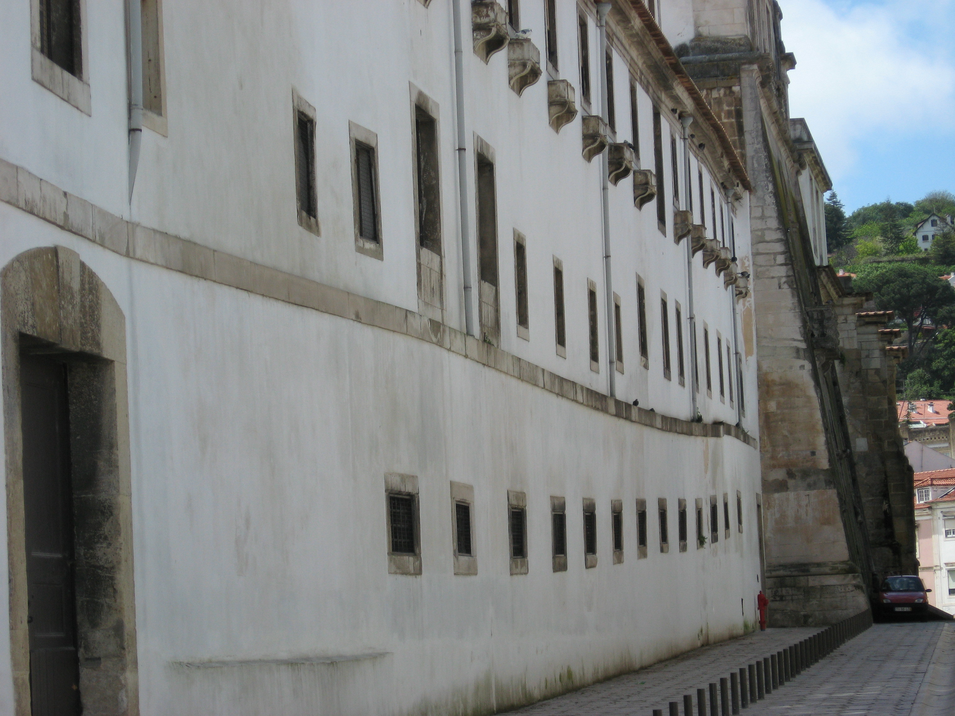 Alcobaça, Claustro da Levada, north side, damaged foundation by the Great Flood of 1772